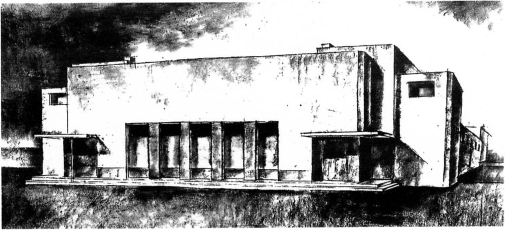 Adolf Meyer. Stadttheater, Jena, perspective drawing 1921 (?). Watercolour (?).